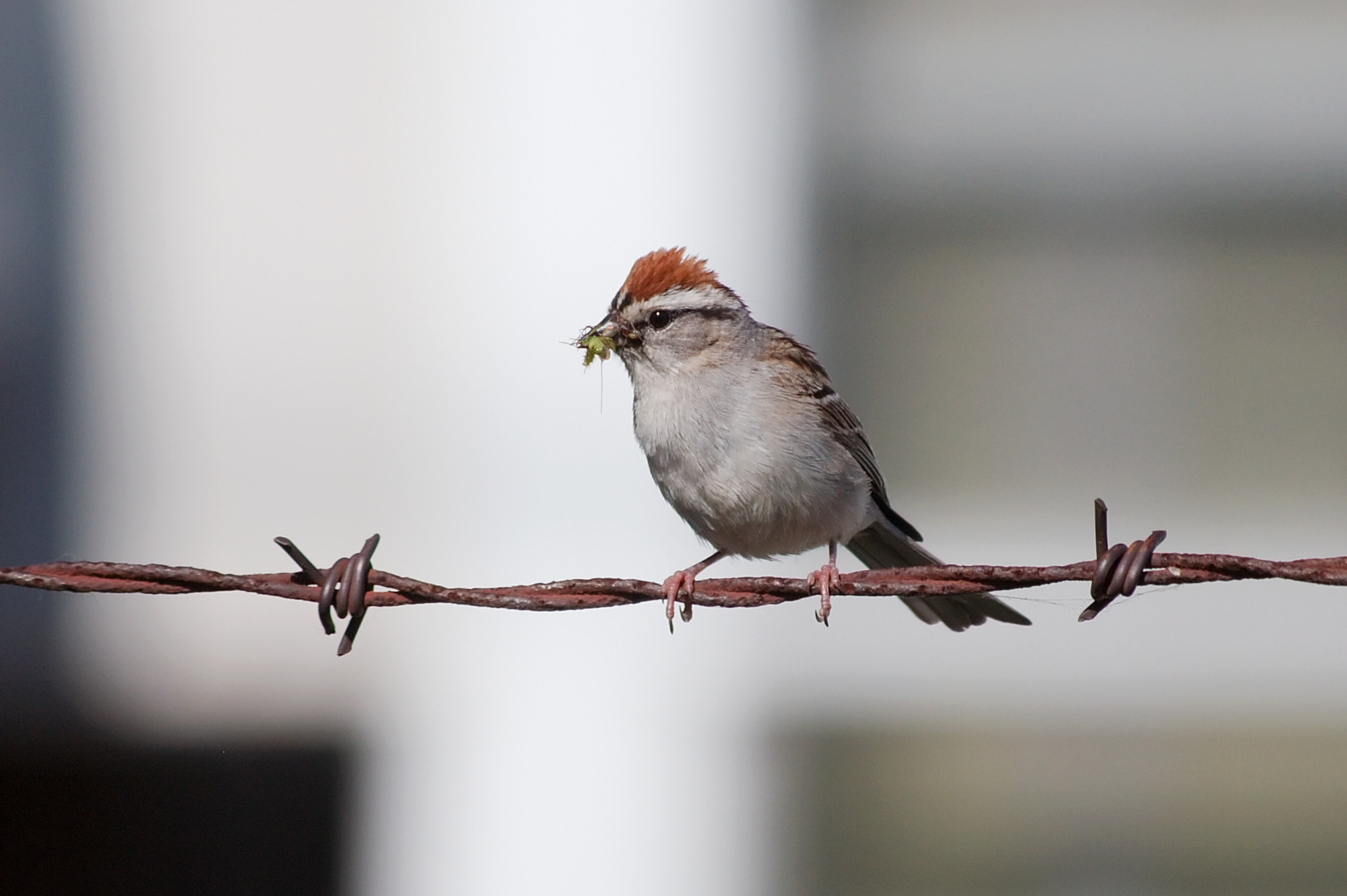 A chipping sparrow (Spizella passerina) eating an insect, taken in Urbana, Illinois